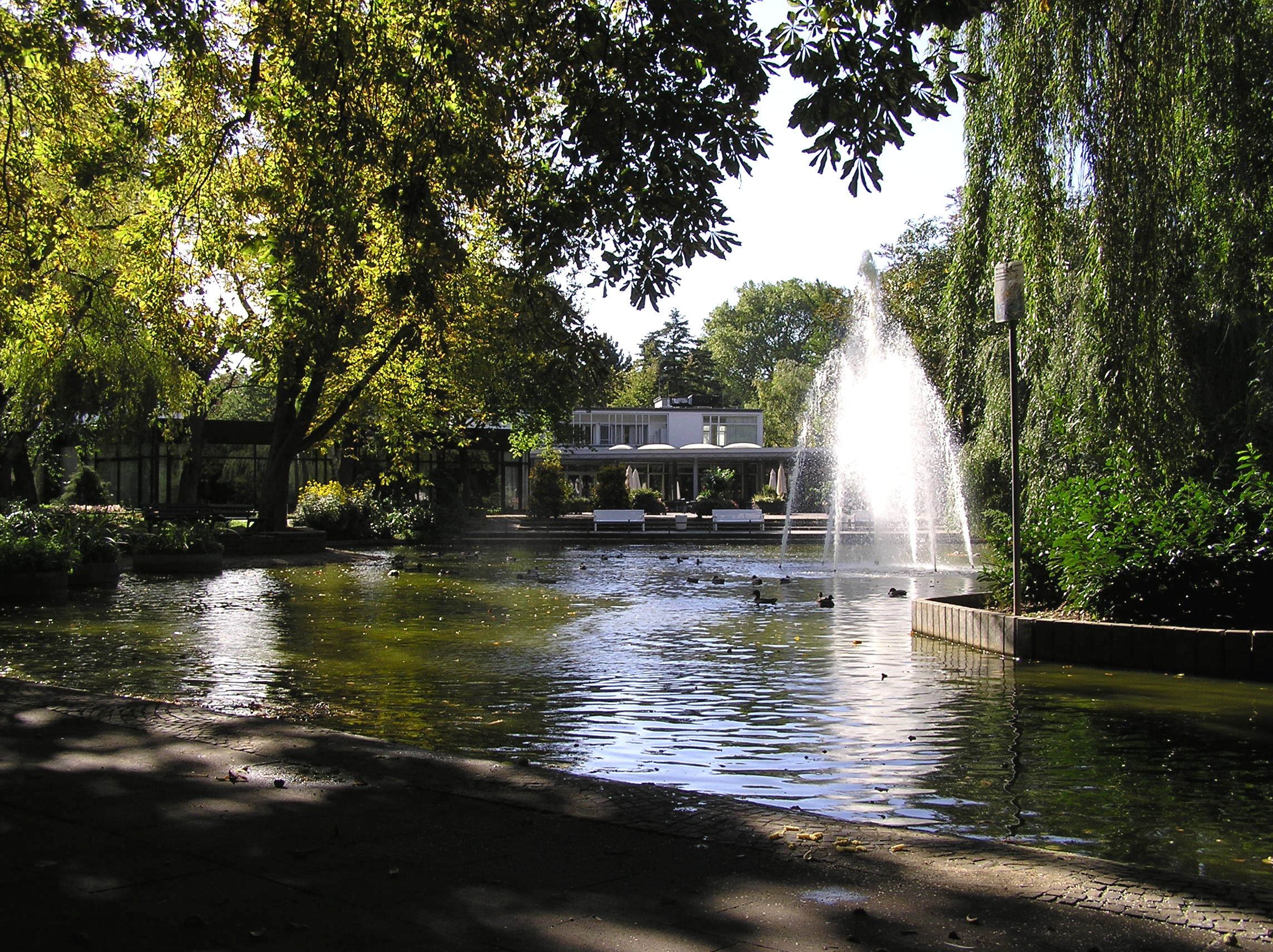 The municipal hall of Bonn-Bad Godesberg as seen from the Kurpark.